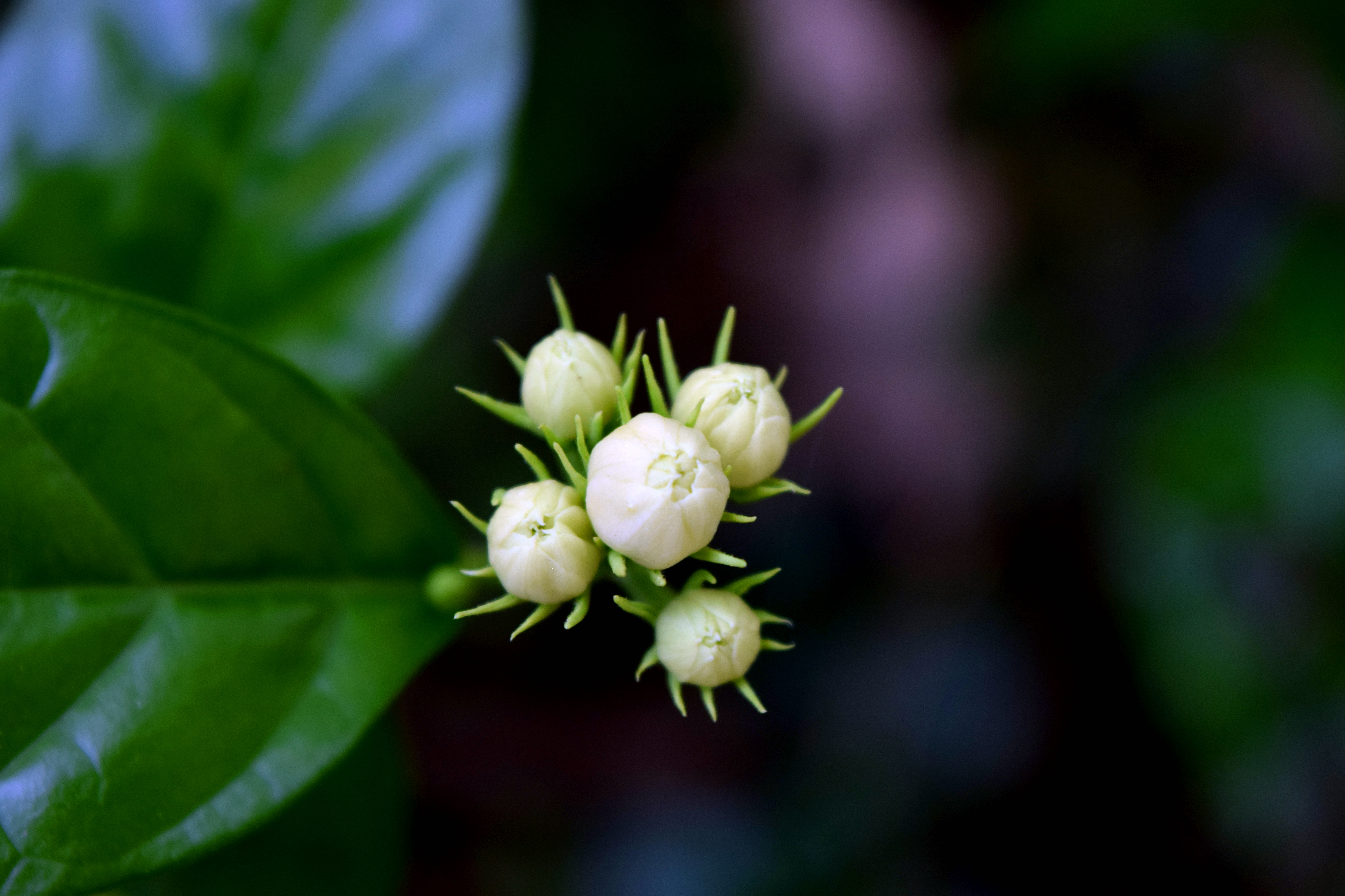 Bud of Jasmine flower from Kerala